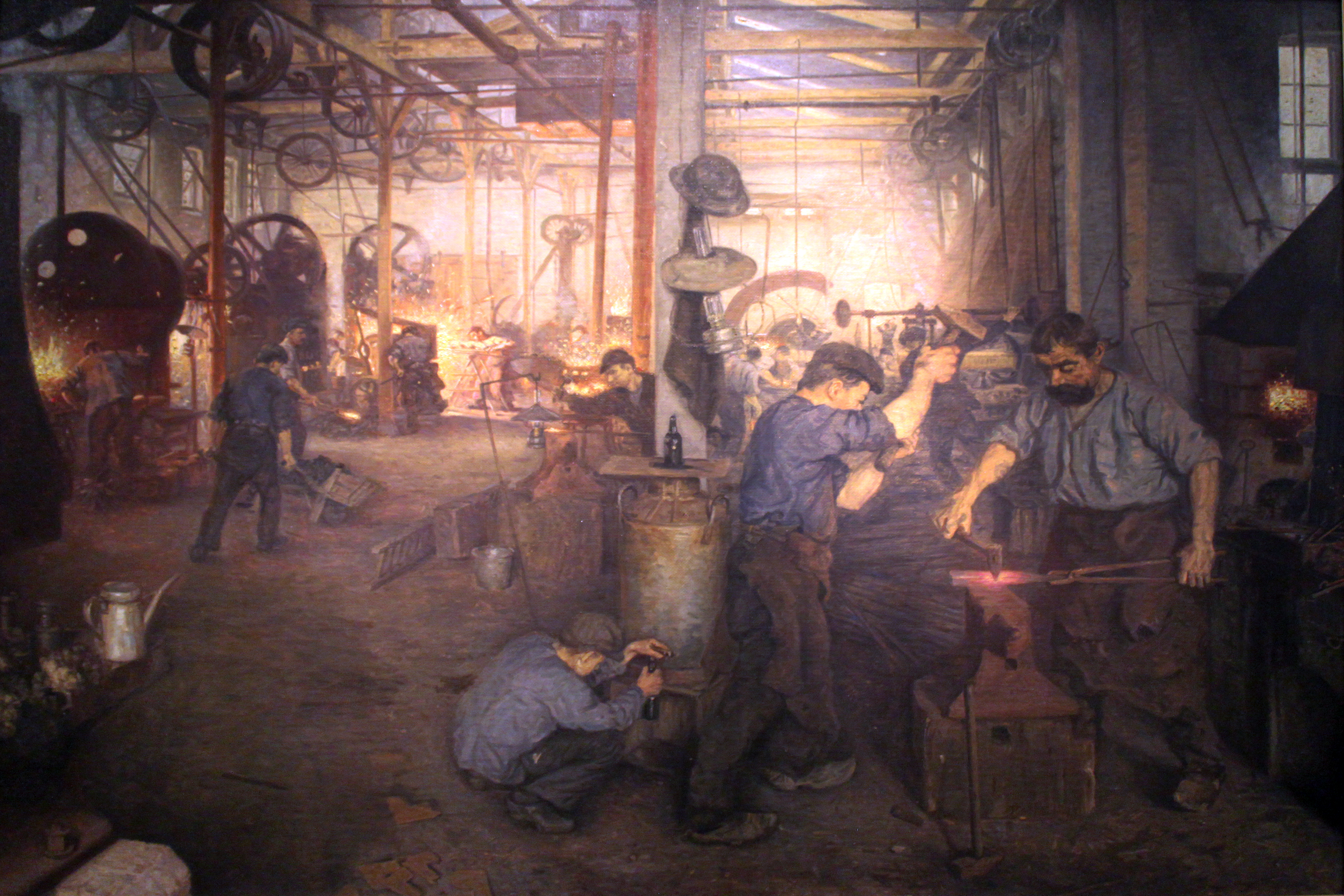 The Forge